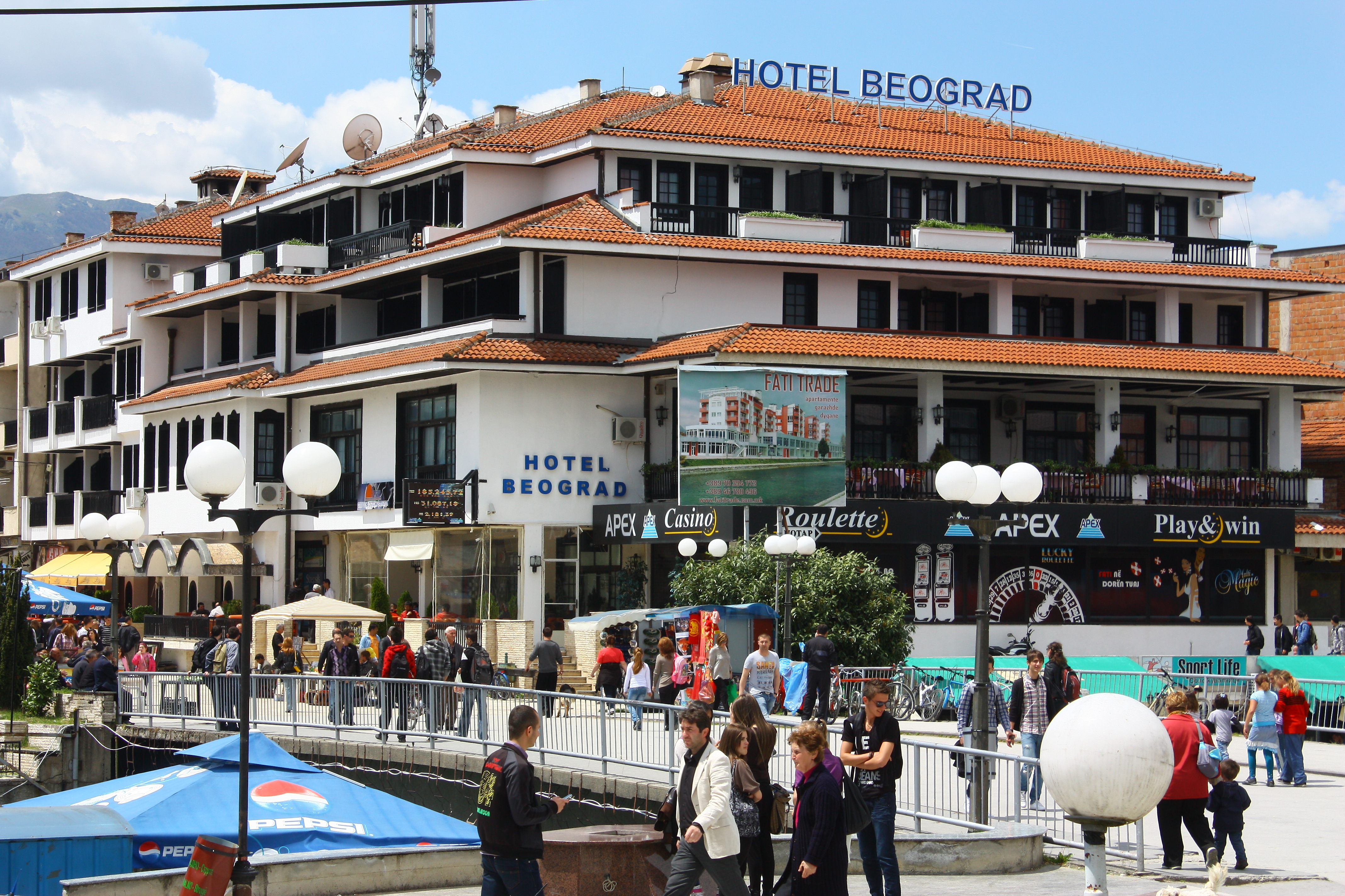 Struga, Macedonia